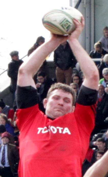 Munster's Donnacha Ryan collects a lineout during the Heineken Cup.